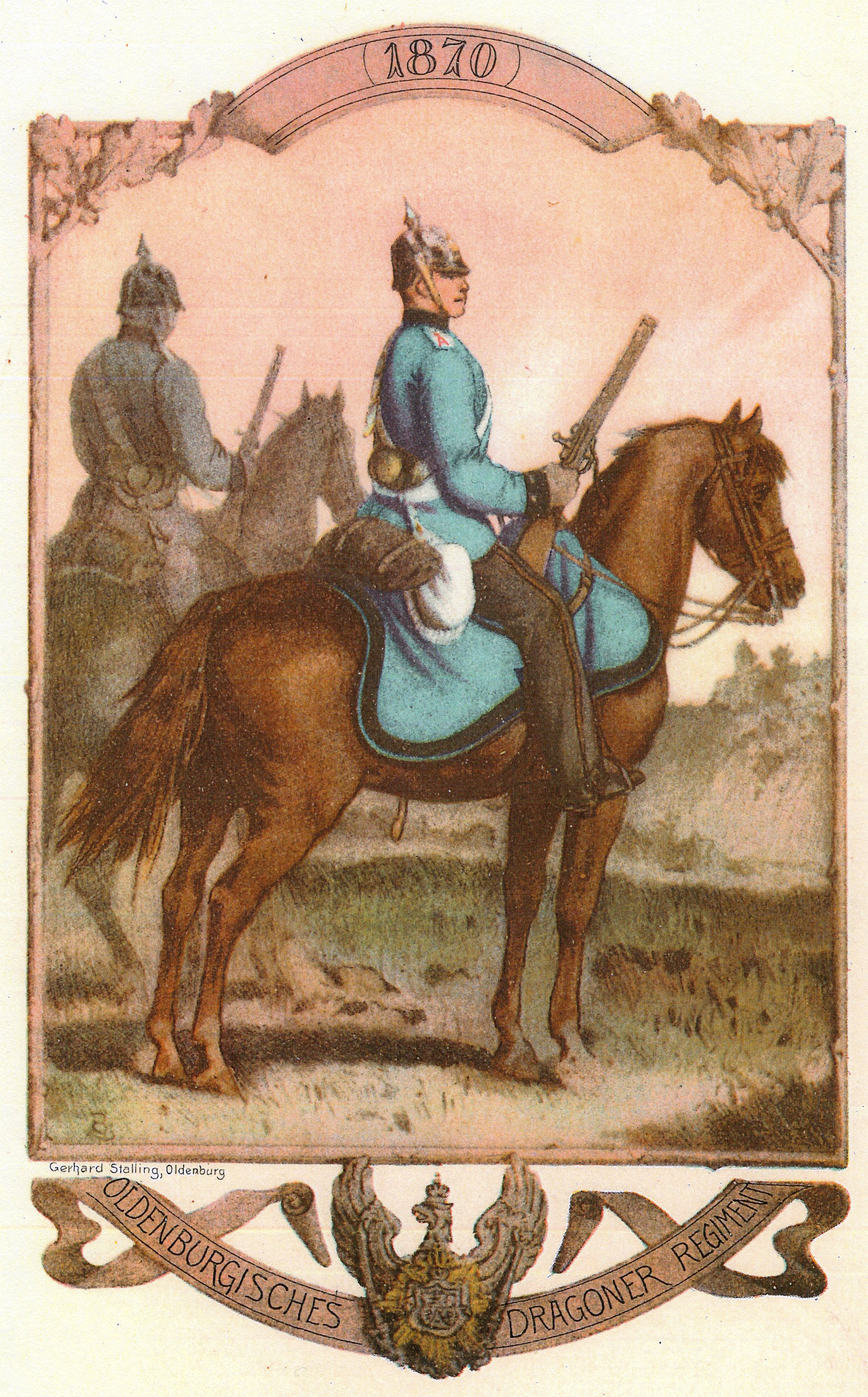 Dragoner des Oldenburgischen Dragoner-Regiment Nr. 19, im Jahre 1870.